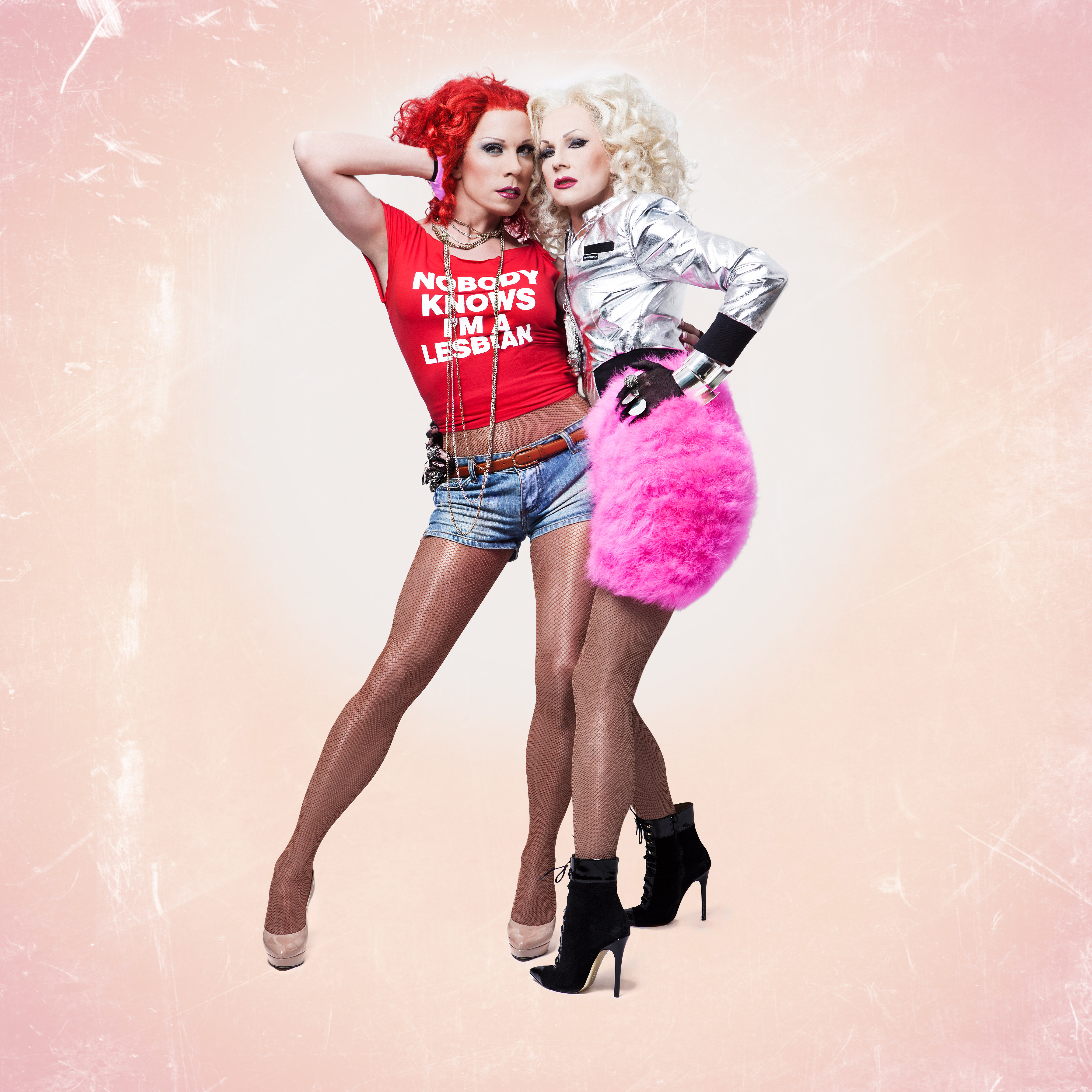 Diamond Dogs